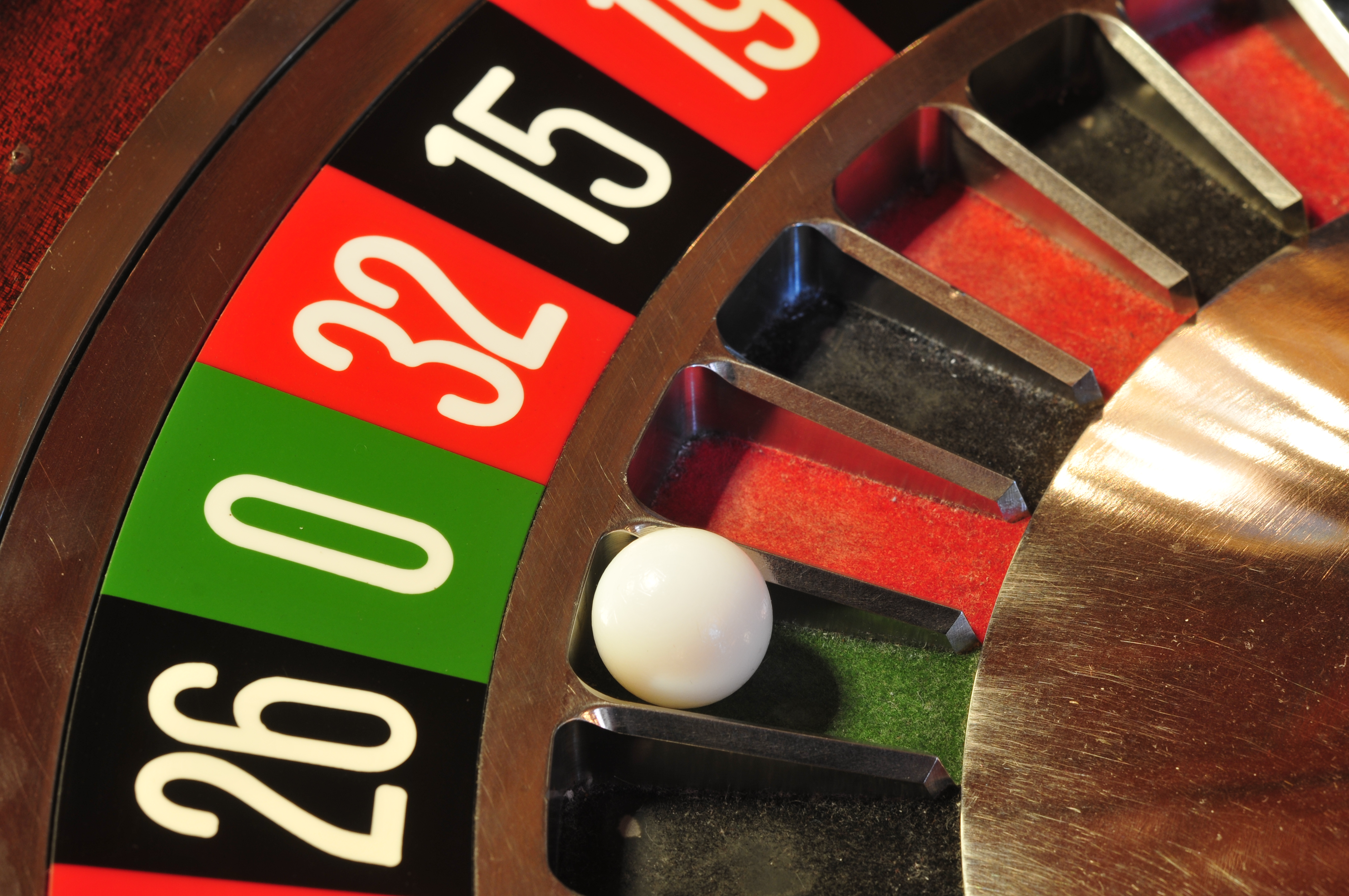 Wiesbaden, Germany, Spielbank Wikipedia im Landtag – Hessen 26.–28. Februar 2013 in Wiesbaden Fragen zur Nachnutzung Wenn Sie Fragen zur Nachnutzung dieses Bildes haben, können Sie sich jederzeit gern an wenden